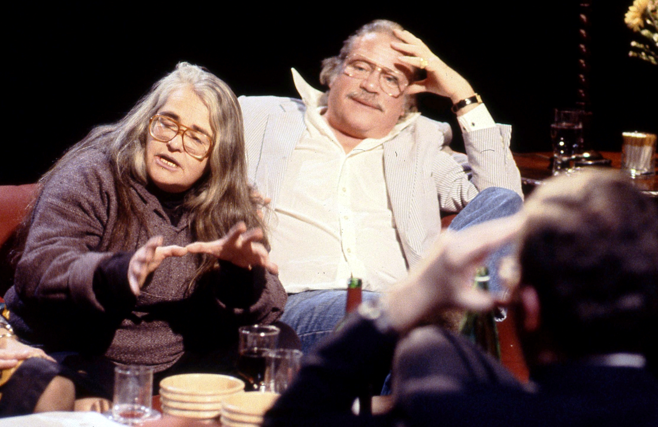 Kate Millett and Oliver Reed appearing on After Dark on 26 January 1991. Other guests included Neil Lyndon, Keith Simpson and Elliott Leyton. More here.